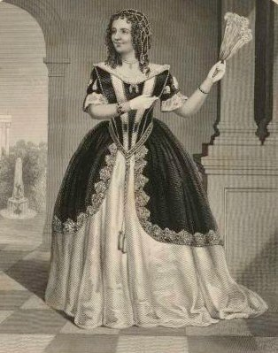 Engraving of Anna Cora Mowatt (1819-1870) as Beatrice in Shakespeare's Much Ado About Nothing - cropped version of Image:Anna Cora Mowatt NYPL 834066.jpg